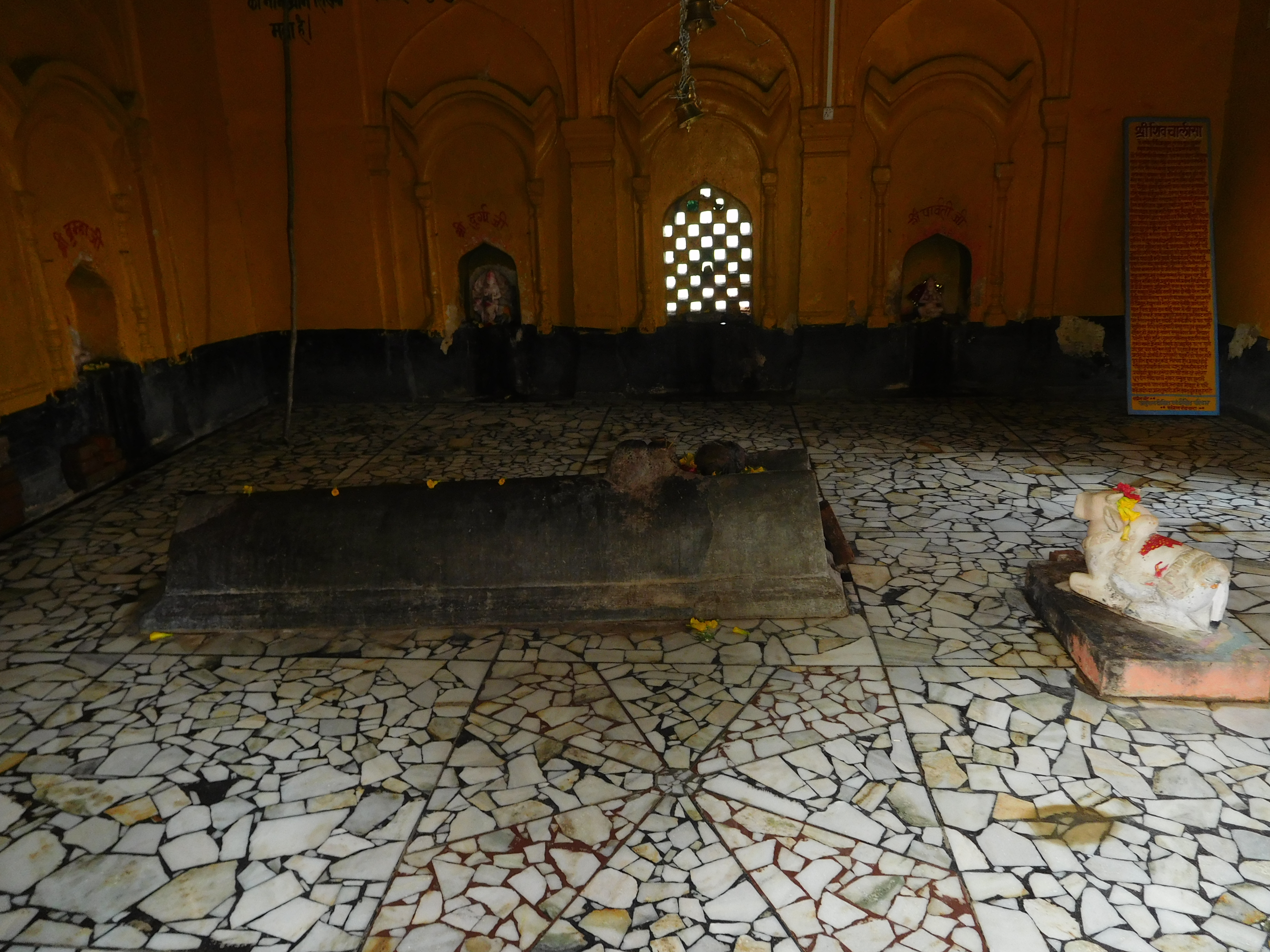 Kapaleshwar Temple ,Derapur (Internal view) ,Kanpur Dehat ,Uttar Pradesh,India